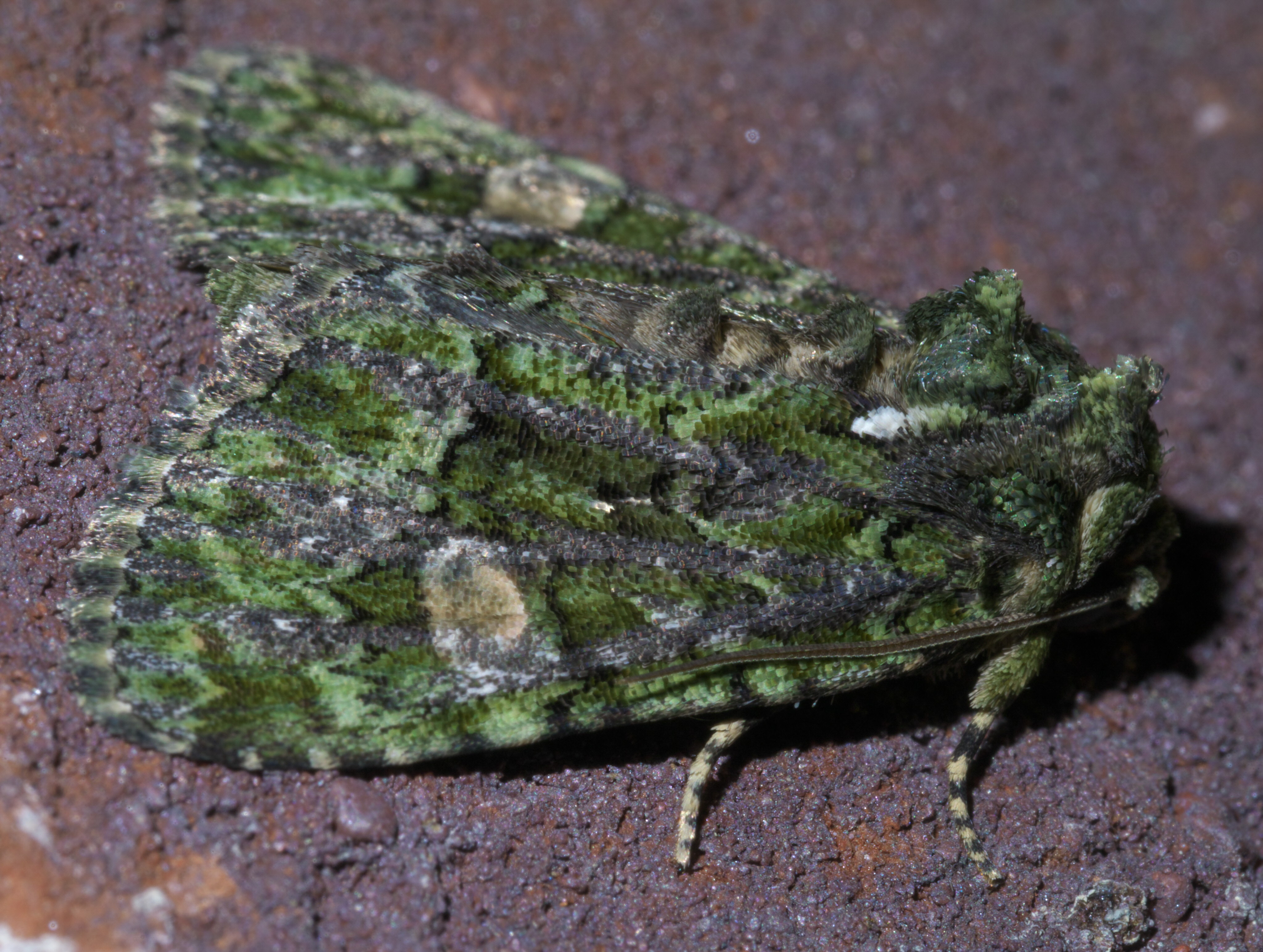 Phosphila miselioides, Spotted Phosphila - Hodges #9619, ID Confidence: 90